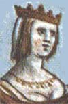 Blanca de Navarra (?-1229)